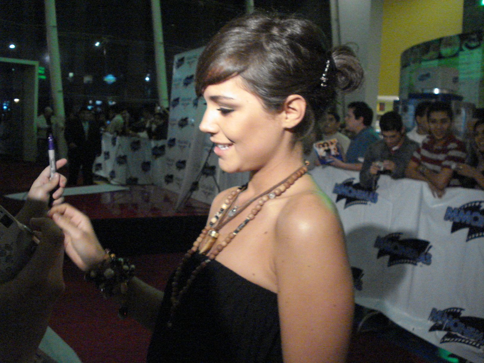 Camila Sodi in Ninas Mal Premiere at Monterrey